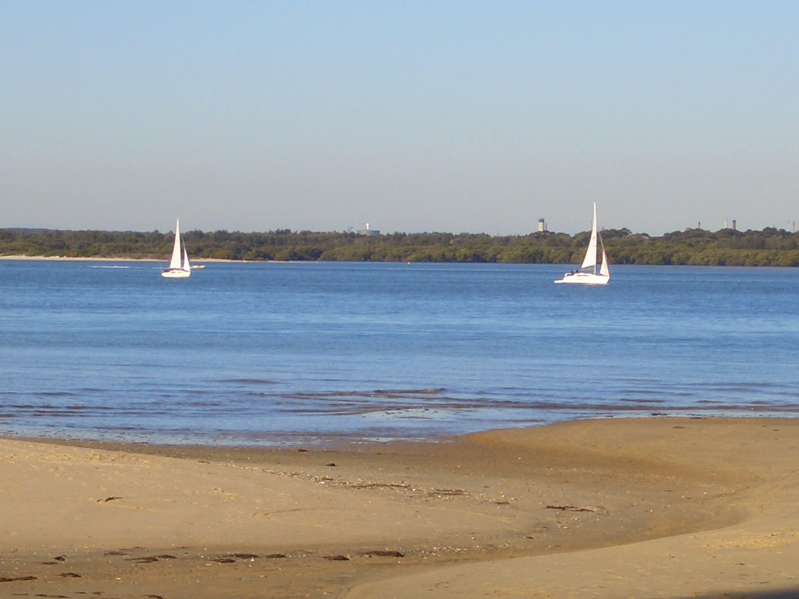 Sandringham, Sydney, Australia. I took the photo on 9th July 2006. J Bar 22:25, 25 July 2006 (UTC)